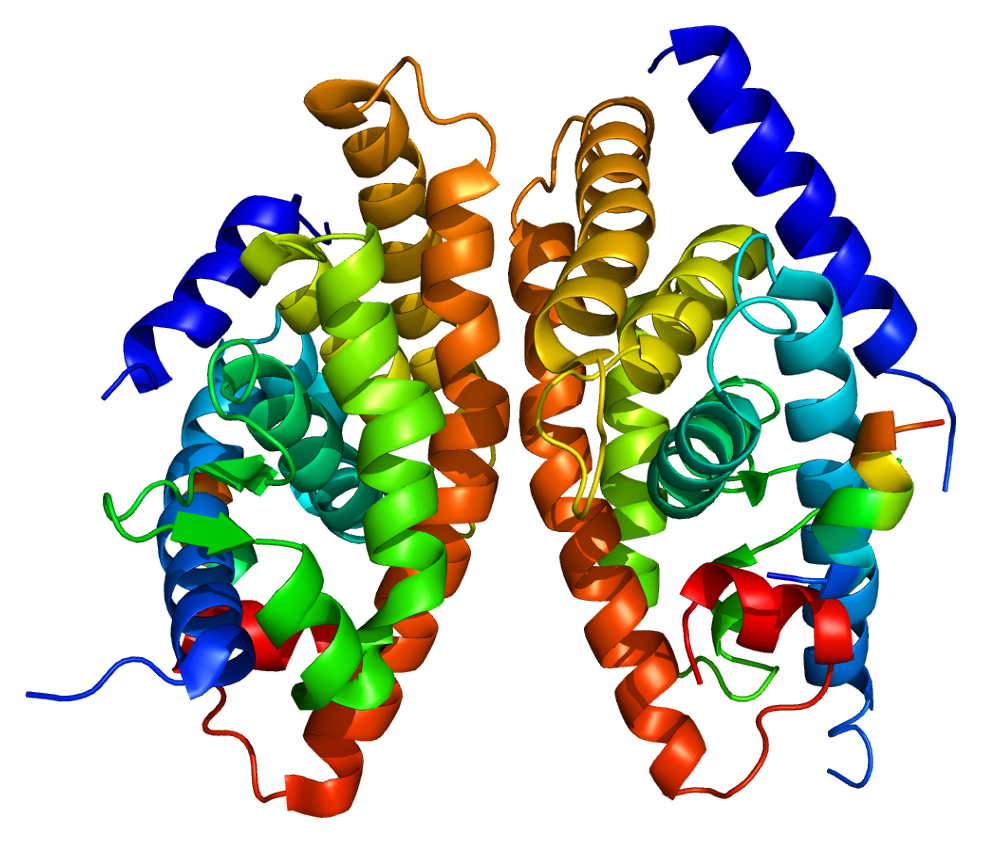 Structure of the NR1H3 protein. Based on PyMOL rendering of PDB 1uhl.